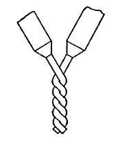 A rattail splice, commonly used for two or more solid conductor wires of the same diameter. This splice is not strong, so it is usually protected inside a terminal box or housing.